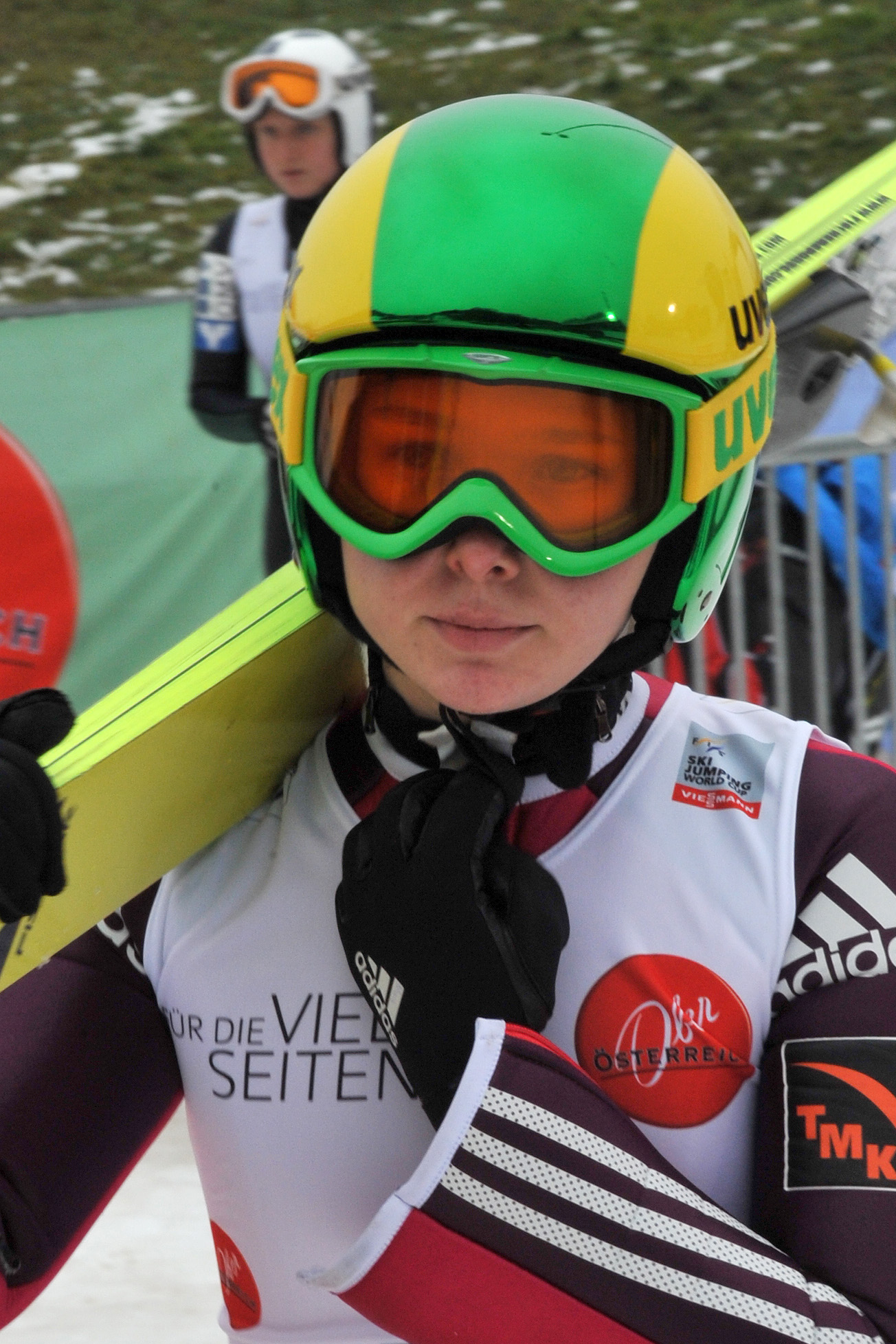 FIS Ski Jumping World Cup Ladies 14th World Cup Competition Normal Hill Individual Hinzenbach (AUT) Sun 2 Feb 2014: Stefaniya Nadymova